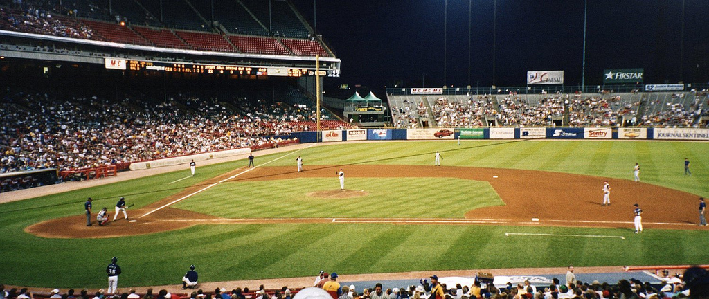 "Cincinnati Reds at Milwaukee August 15, 2000 game. Brewers' Henry Blanco is pictured at bat at the bottom of the 5th inning against Reds' pitcher Pete Harnisch. Final score: Reds-Brewers 1-2 (10 Innings)"